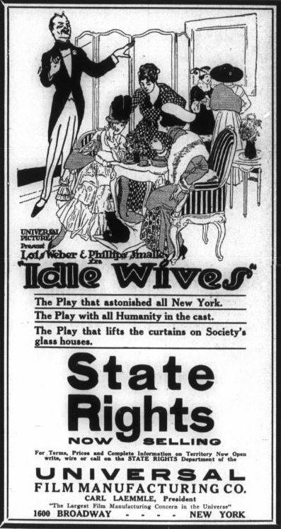 Advertisement for the American drama film Idle Wives (1916), on page 25 of the September 29, 1916 Variety.